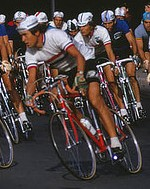 Gerben Karstens, 1974 World Championship Road Race, Montreal, Canada